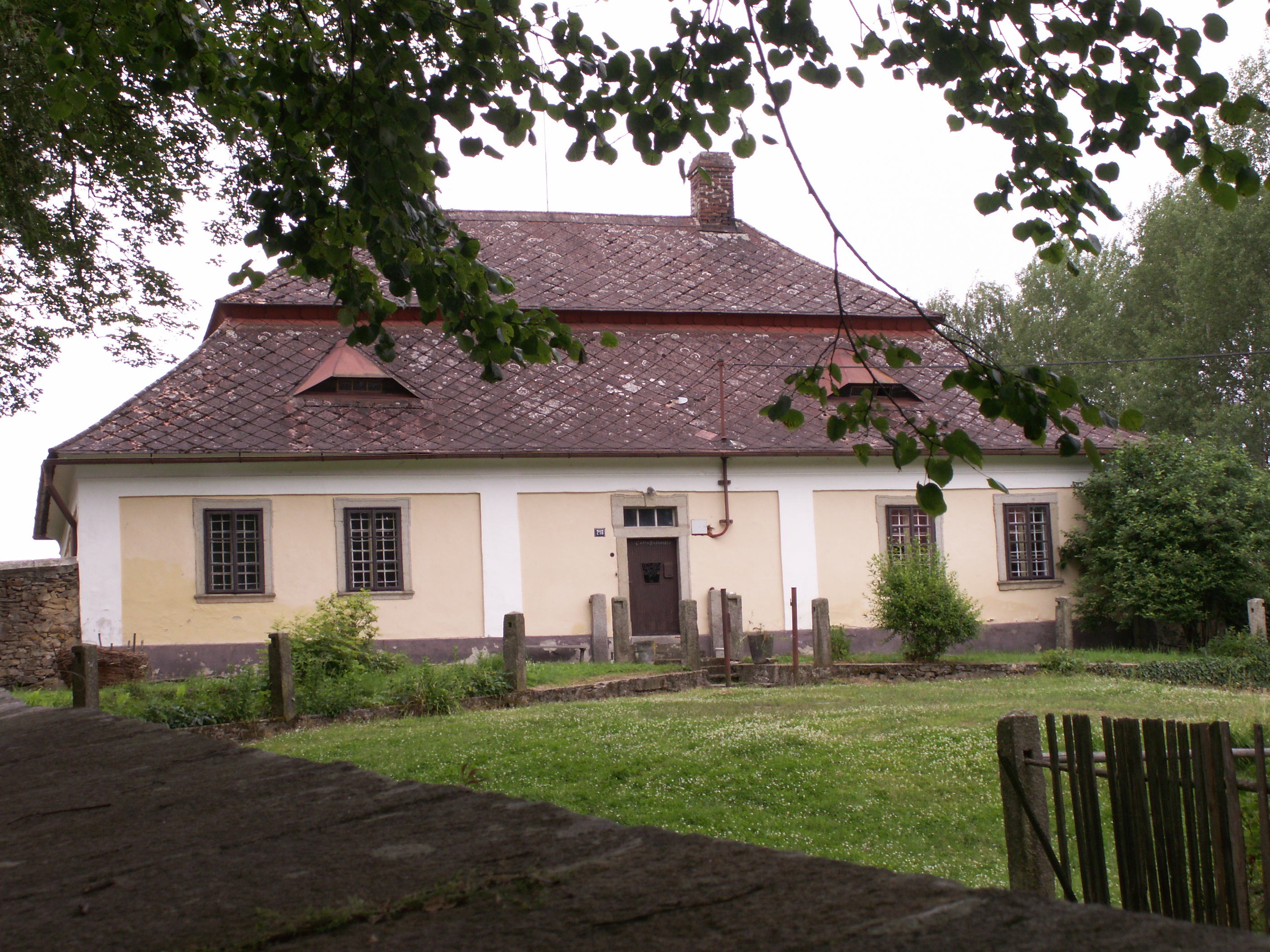 KONICA MINOLTA DIGITAL CAMERA, Sobíňov, okres Havlíčkův Brod, kraj Vysočina